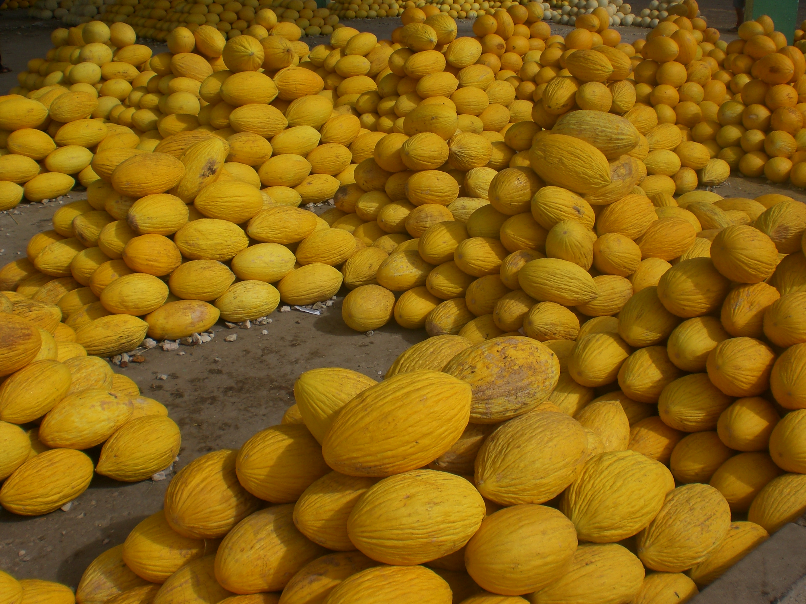 Melon in the marché de Gros de Tunis